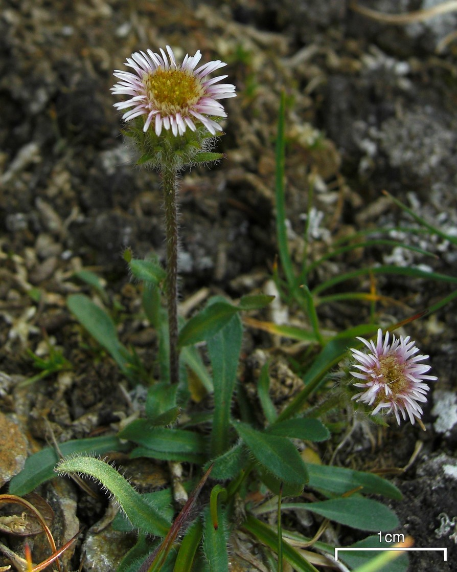 Erigeron humilis on Raft Mountain, Wells Gray Park, BC, Canada